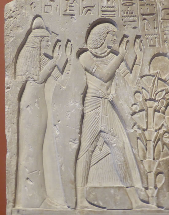 The treasurer Merire, relief from his tomb at Saqqara, now Kunsthistorisches Museum, Wien